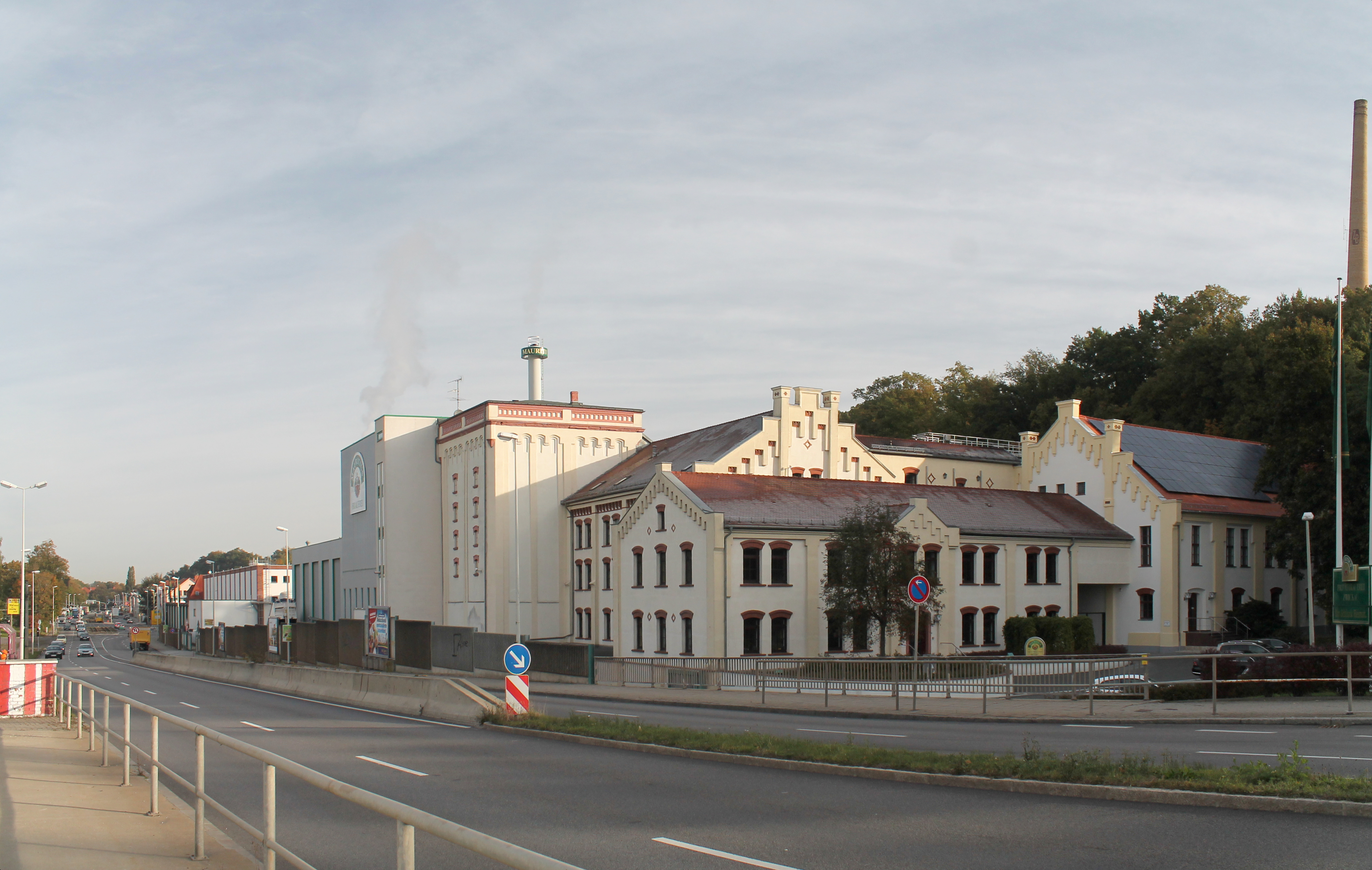 Mauritius brewery. Zwickau, Saxony, Germany.